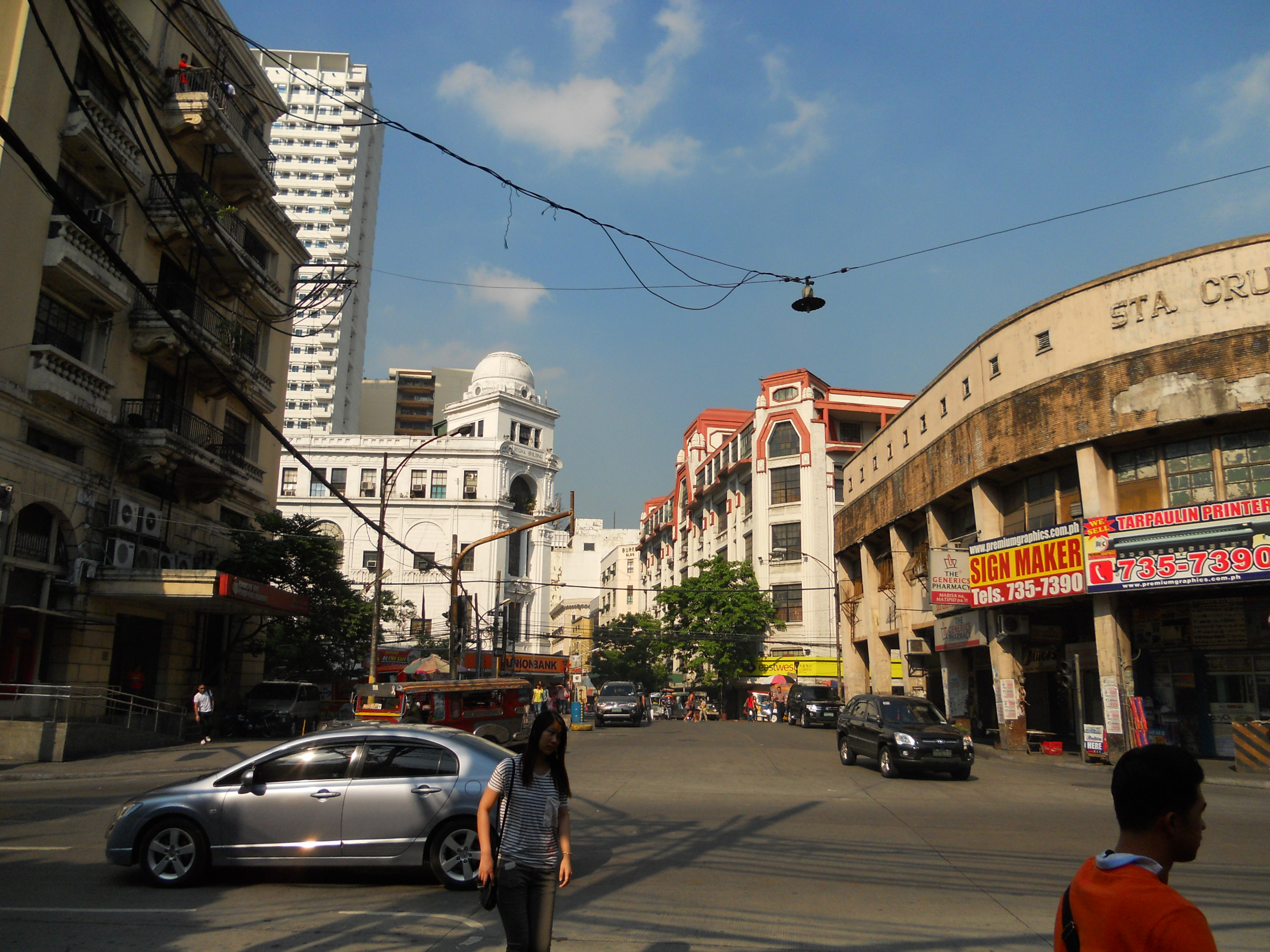 Entrance of Escolta Street from Plaza Sta. Cruz